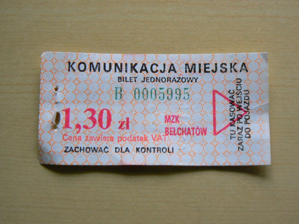 Disposable bus ticket with discount, MZK Bełchatów.